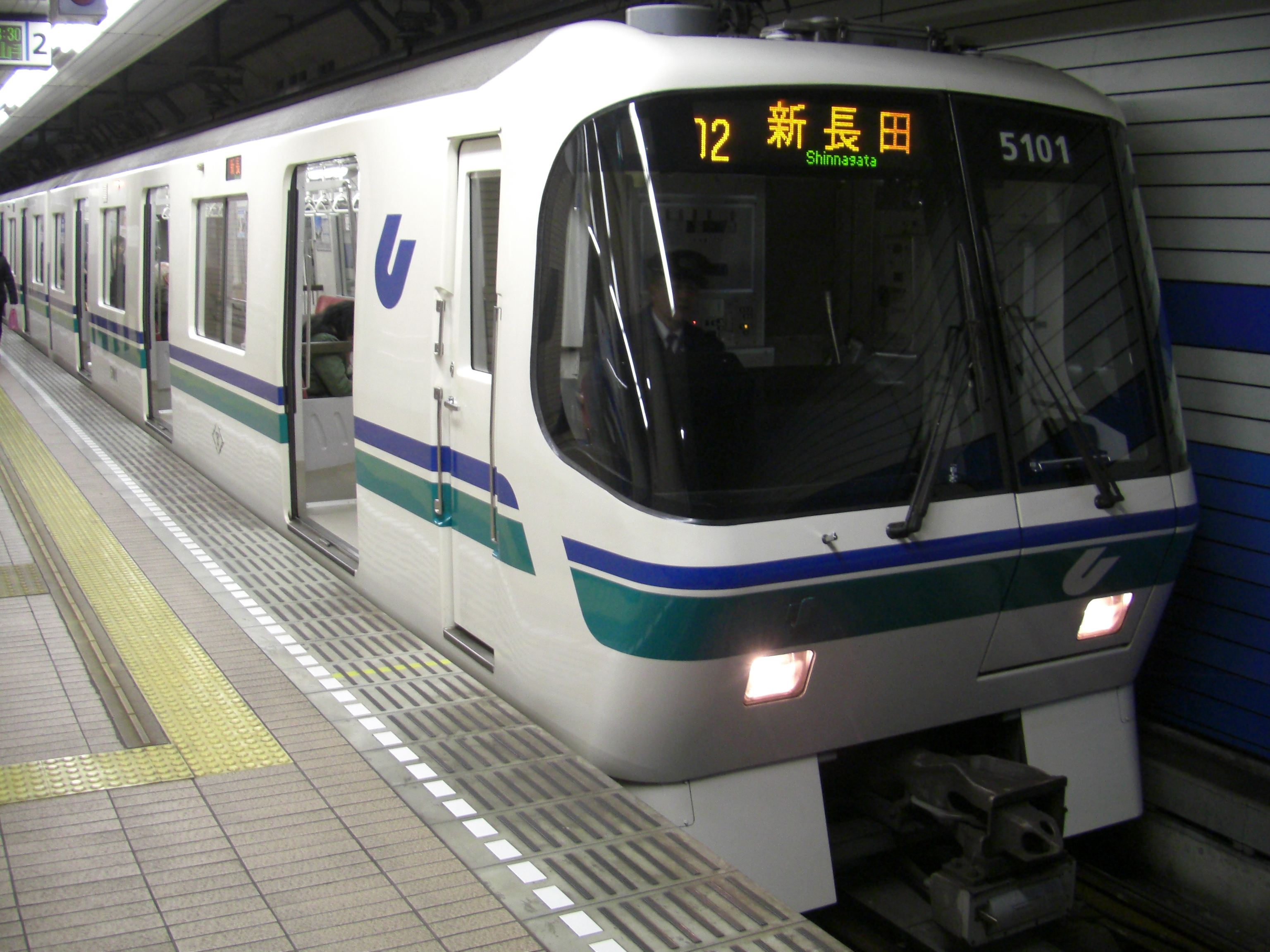 Kobe Municipal Subway type 5000 at Sannomiya-Hanadokeimae Station in Kobe, Hyogo, Japan